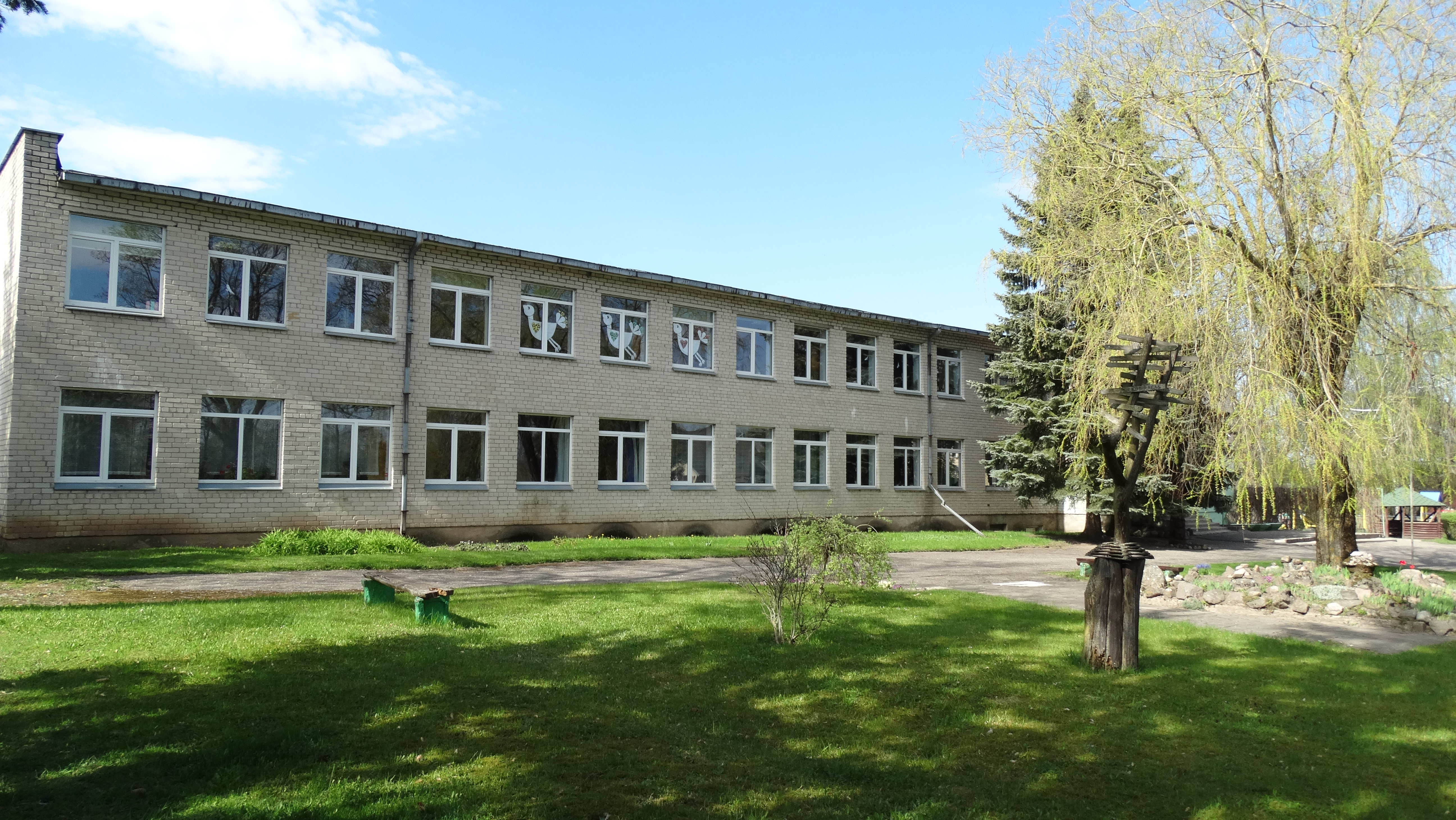 Basic school in Bagaslaviškis, Širvintos District, Lithuania